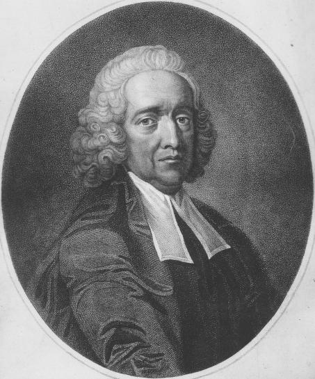 Scan of old picture of Stephen Hales